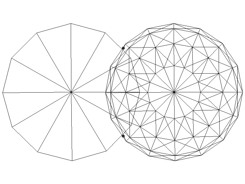 Surface of sphere and circumference of circle intersecting with 2 points of intersection marked.